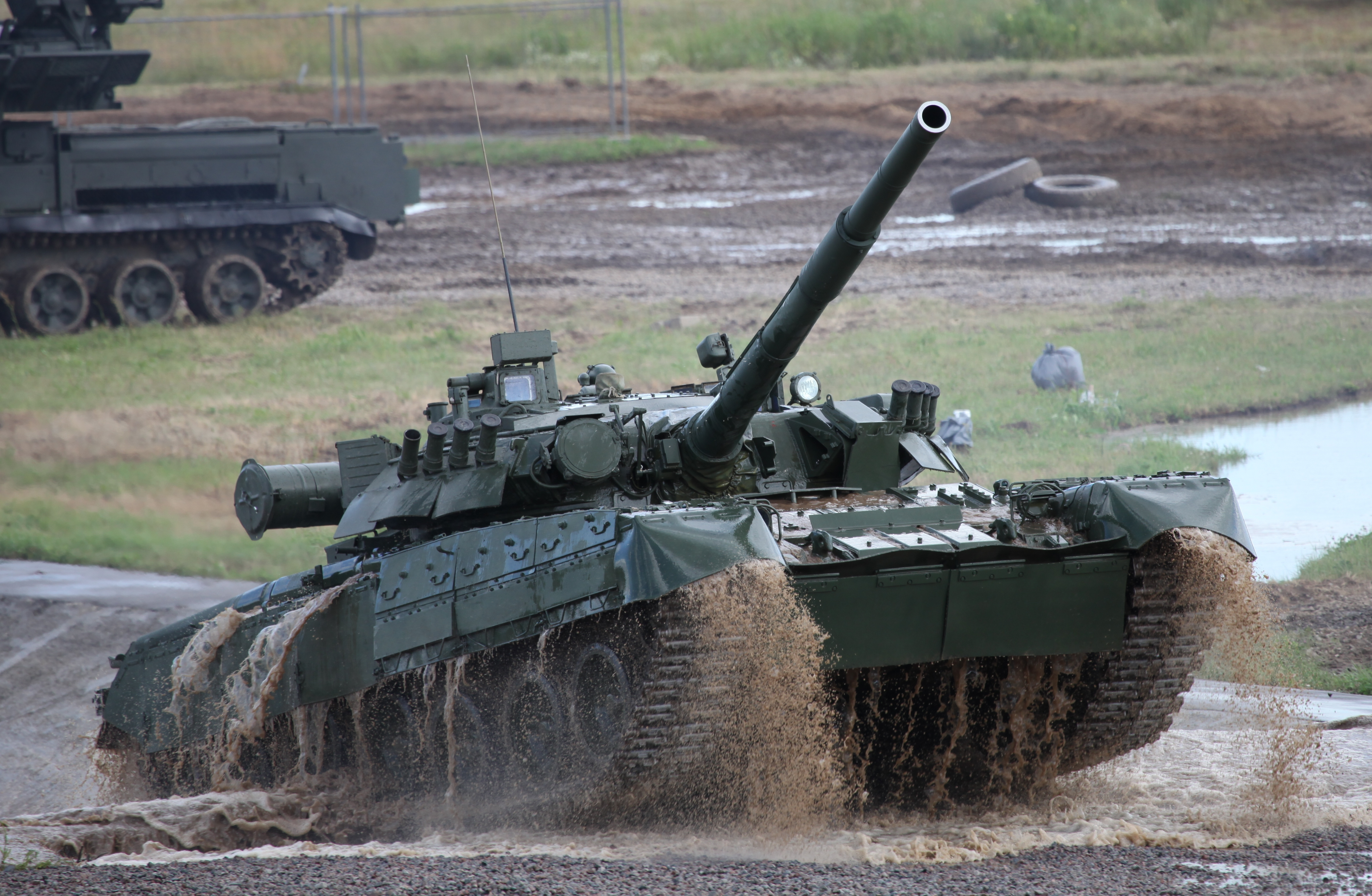 T-80U main battle tank at Engineering Technologies 2012 international forum.